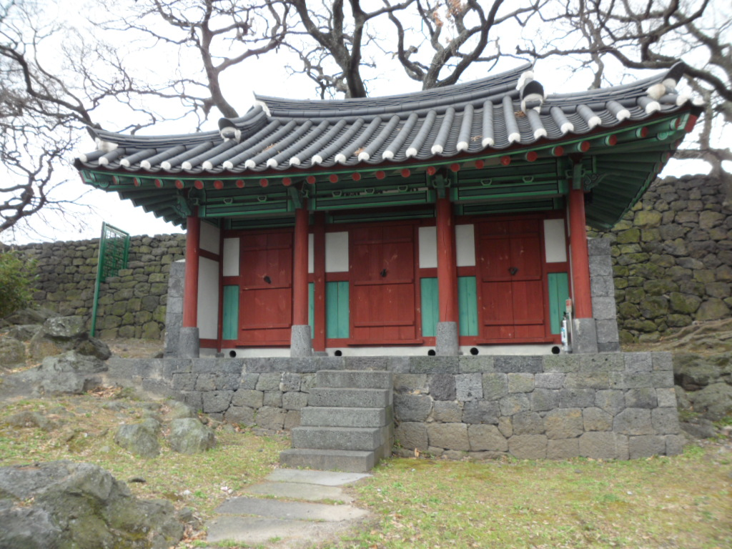 Located in Ido 1-dong, Jeju-do, South Korea, Hyanghyeonsa is shrine bulit in Joseon Dynasty commemorating bureaucrat Ko Deukjong in Joseon Dynasty.